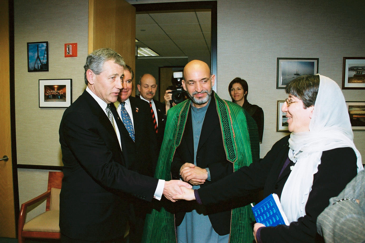 Senator Chuck Hagel (R - Nebraska) meets Afghan Interim Chairman Hamid Karzai and Minister of Women Affairs Sima Simar at a USAID ceremony announcing the first U.S. funded programs for Afghanistan reconstruction.